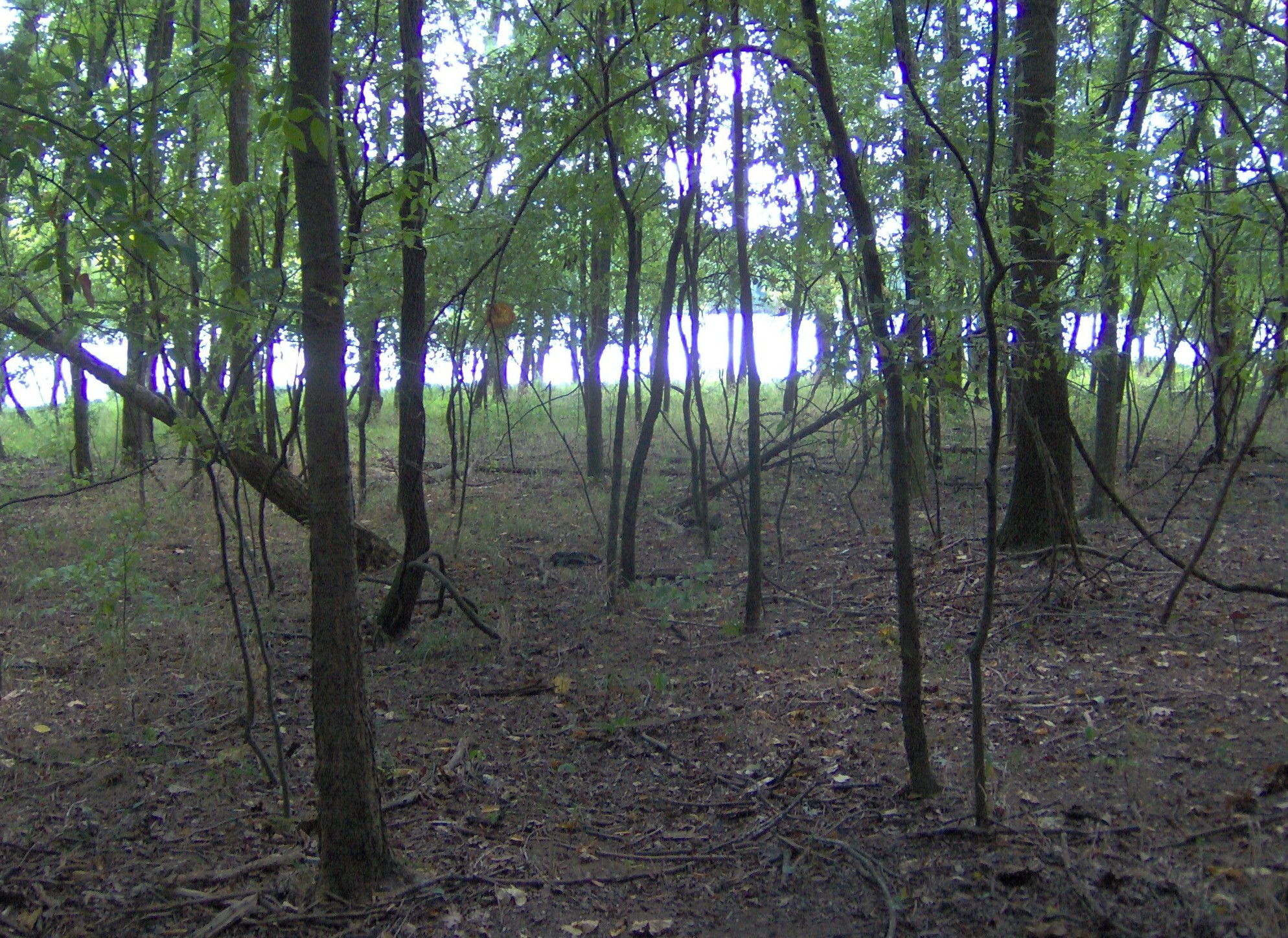 Young forest along the Shoreline Trail at Bledsoe Creek State Park in Sumner County, Tennessee, in the southeastern United States. Old Hickory Lake is visible through the treeline.